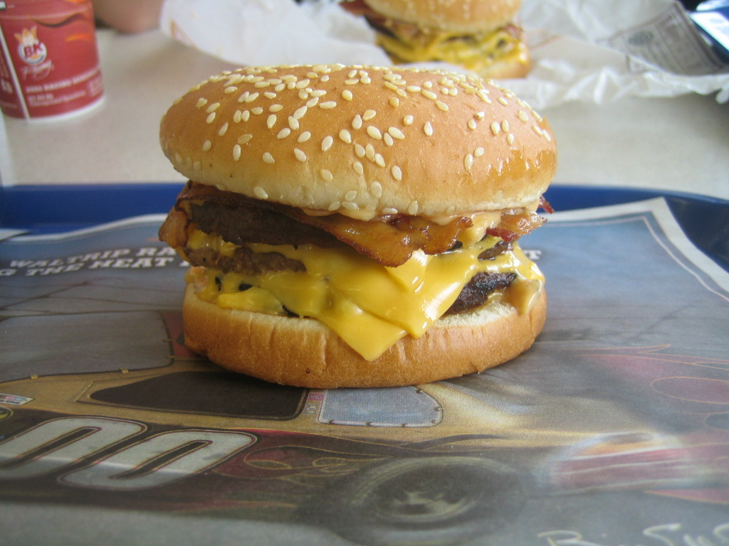 The Burger King "BK Stacker" sandwich. Note that actual appearance of item served in store may differ significantly from the item shown in this picture.